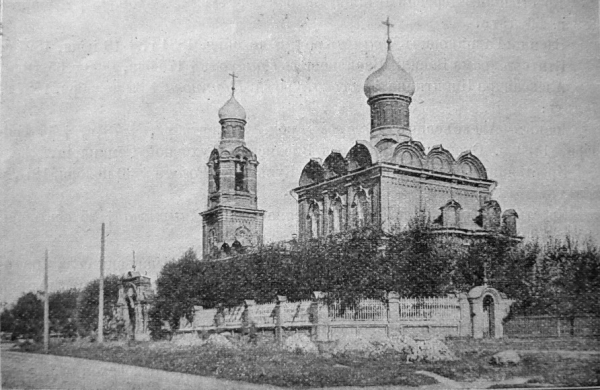 Церковь Спаса Преображения в селе Тушино Church of the Transfiguration of the Savior in Tushino